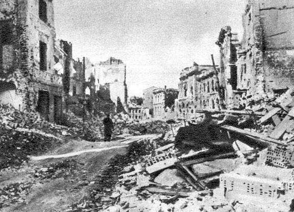 Warsaw Uprising: Bielańska Street after 1 September 1944. On the right visible ruins of "Bank Polski" building.